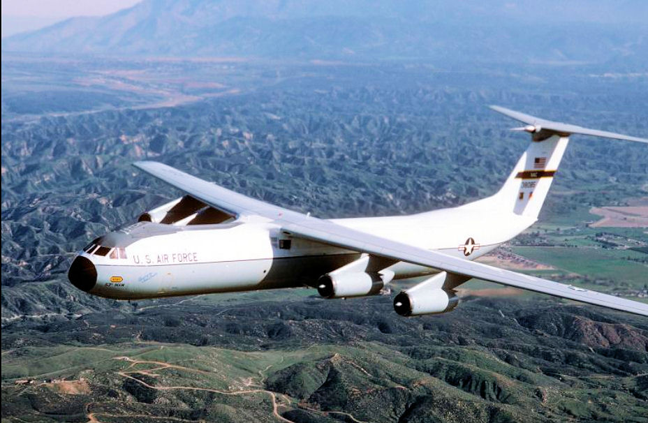 Lockheed C-141-10-LM Starlifter 63-8085 (c/n 300-6016). Constructed 1964, assigned to 63d Military Airlift Wing, Norton AFB, California "Spirit of the Inland Empire". Updated to C-141B configuration about 1980/81. Later updated to C-141C, 2000. Retired to AMARC as CR0190 Oct 14, 2003 Still on AMARC inventory Jan 15, 2008